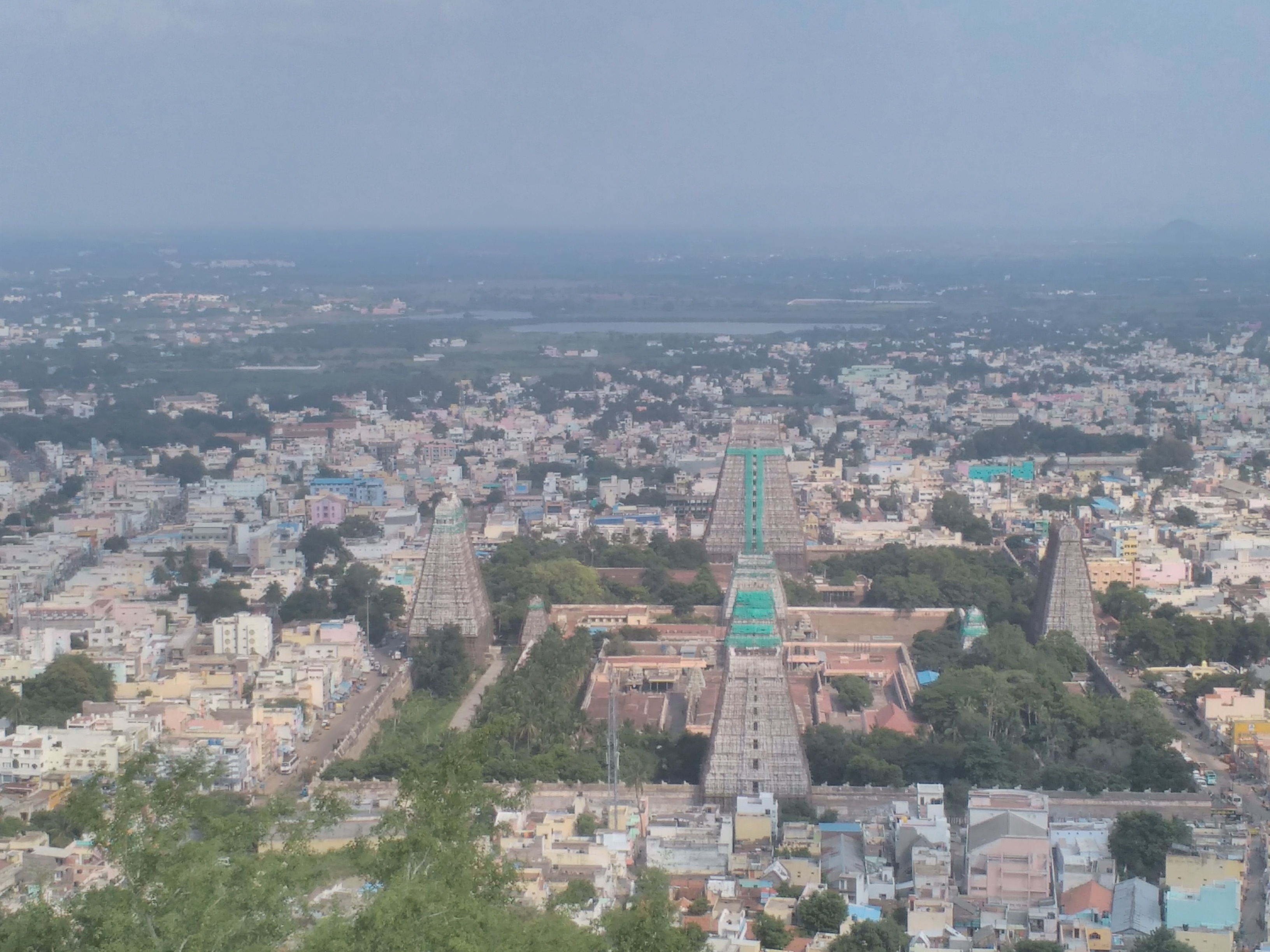 Top most view of "Thiruvannamalai towers"